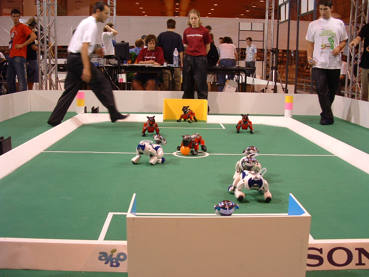 A picture of one of the legged league games of Robocup 2004 in Lisbon, Portugal.